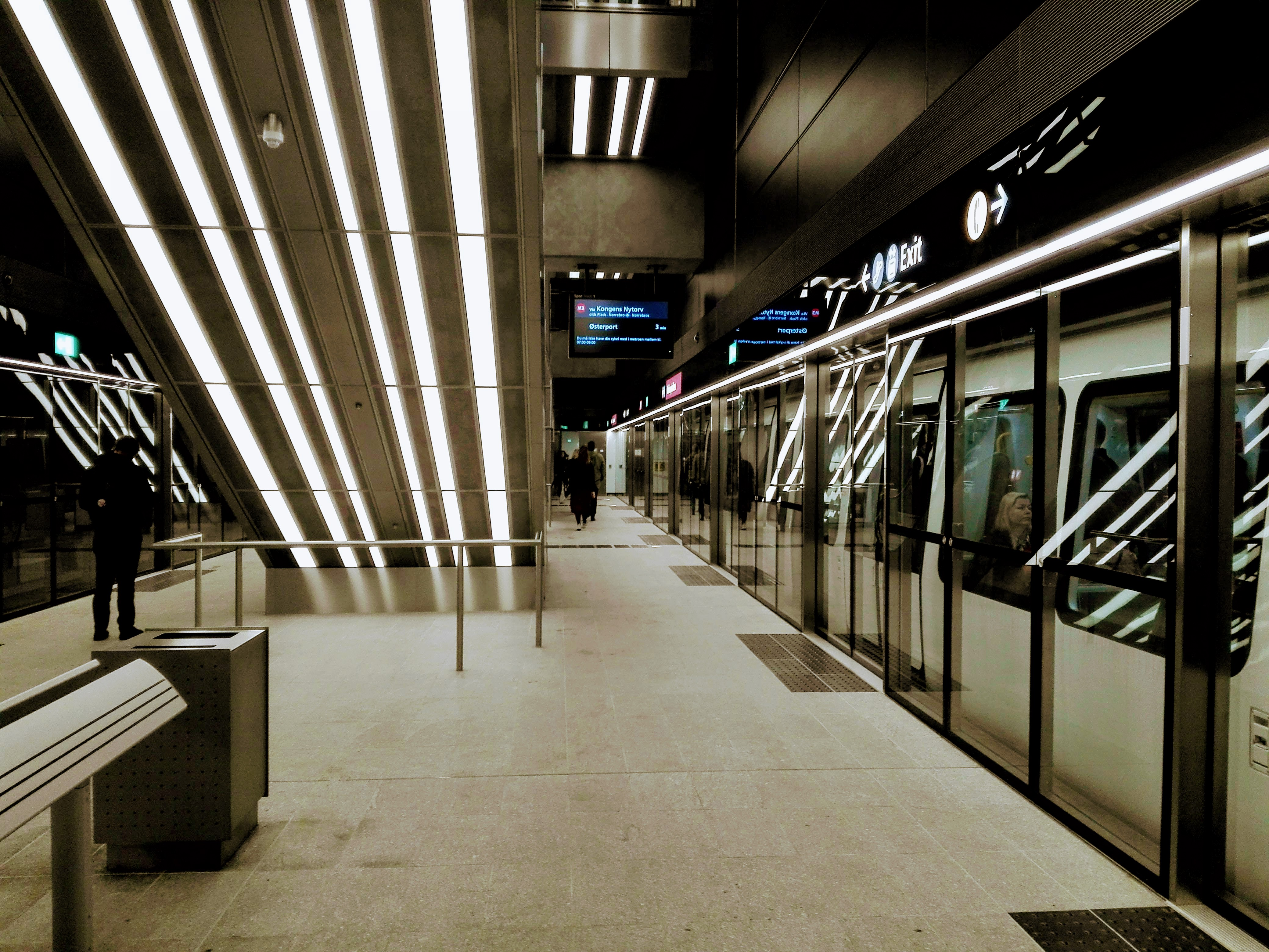 Platform level